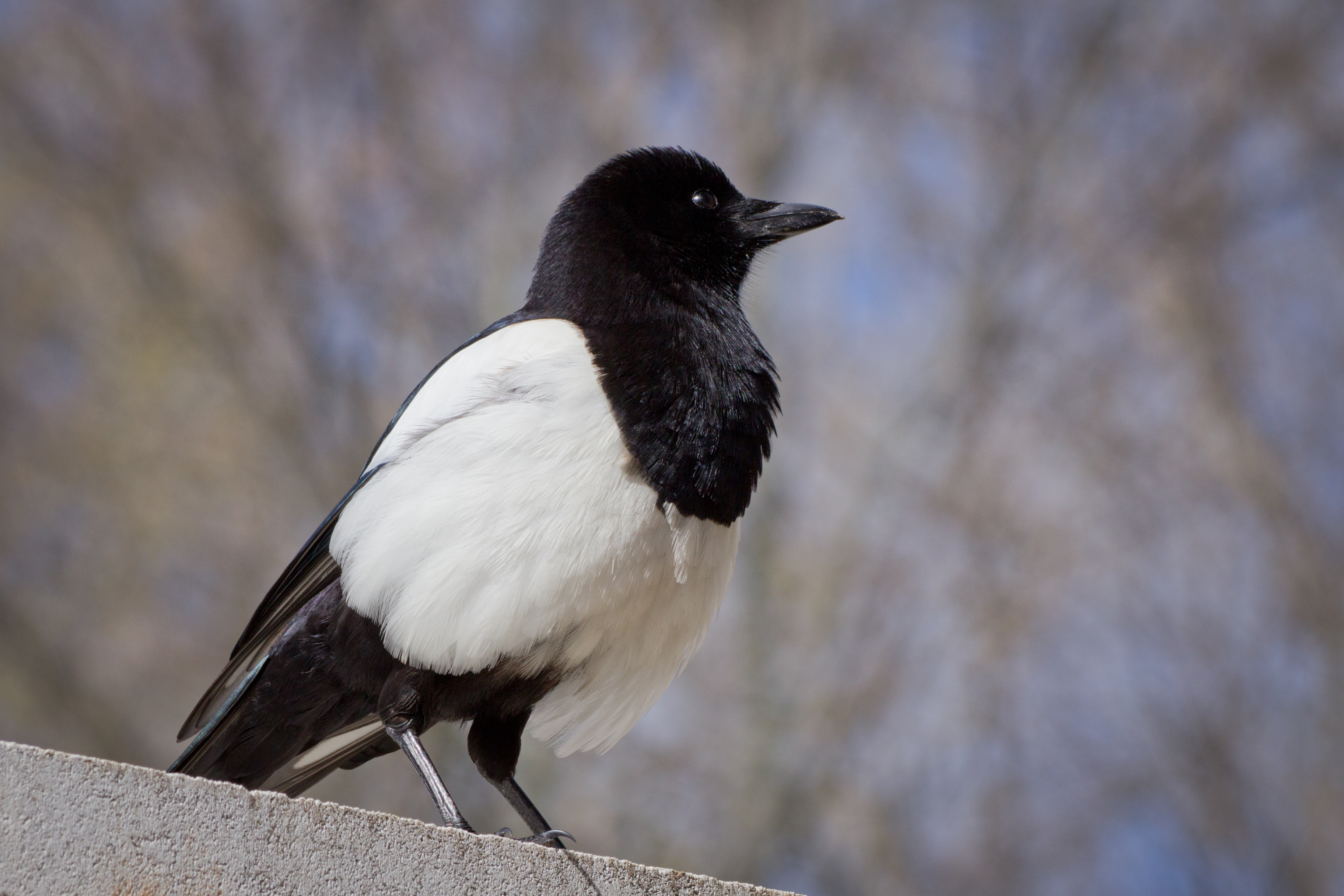 Eurasian Magpie (Pica pica) in Madrid, Spain.